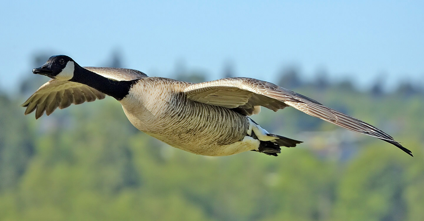 A Canada Goose flying at Burnaby Lake Regional Park (Piper Spit), Burnaby, British Columbia.